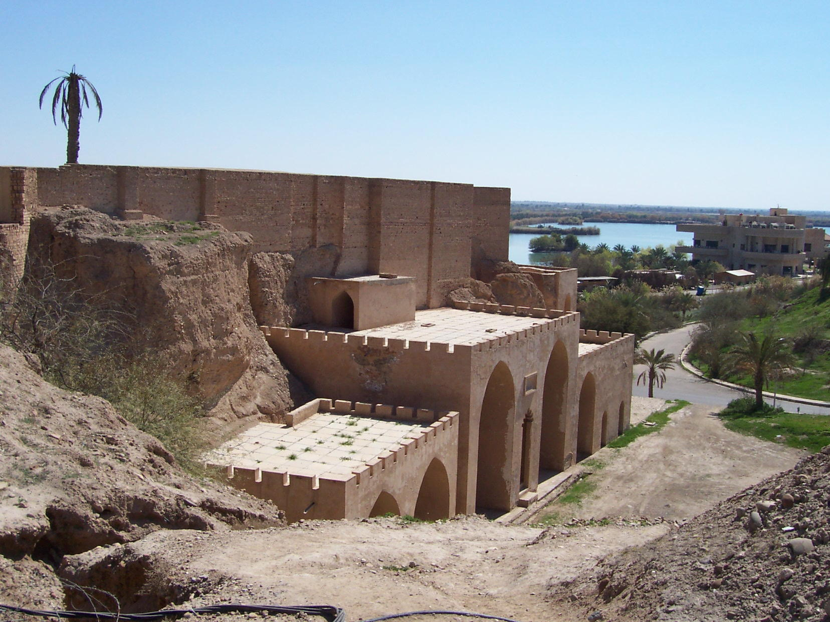 Taken by a US employee at Camp Danger, Tikrit in March 2005.